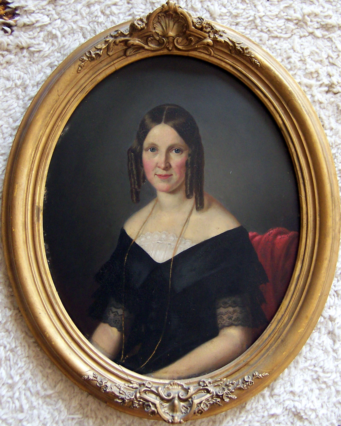 Augusta Maria Naeff-Custer (1817—1850)